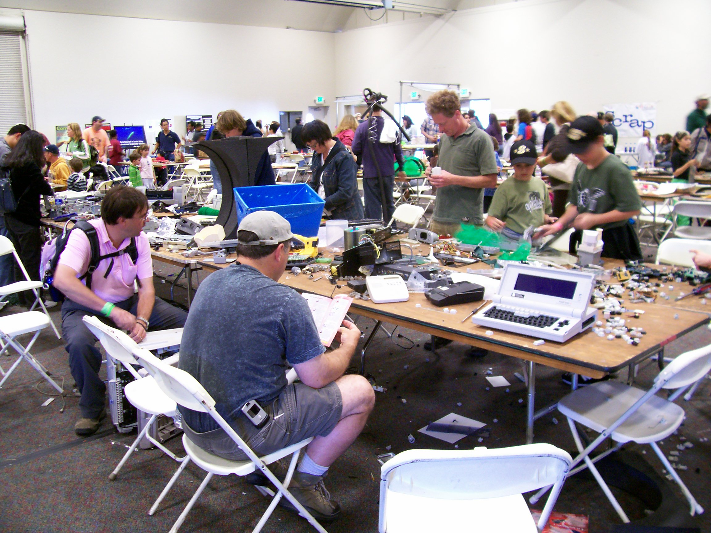 A room full of junk and people making it into stuff.